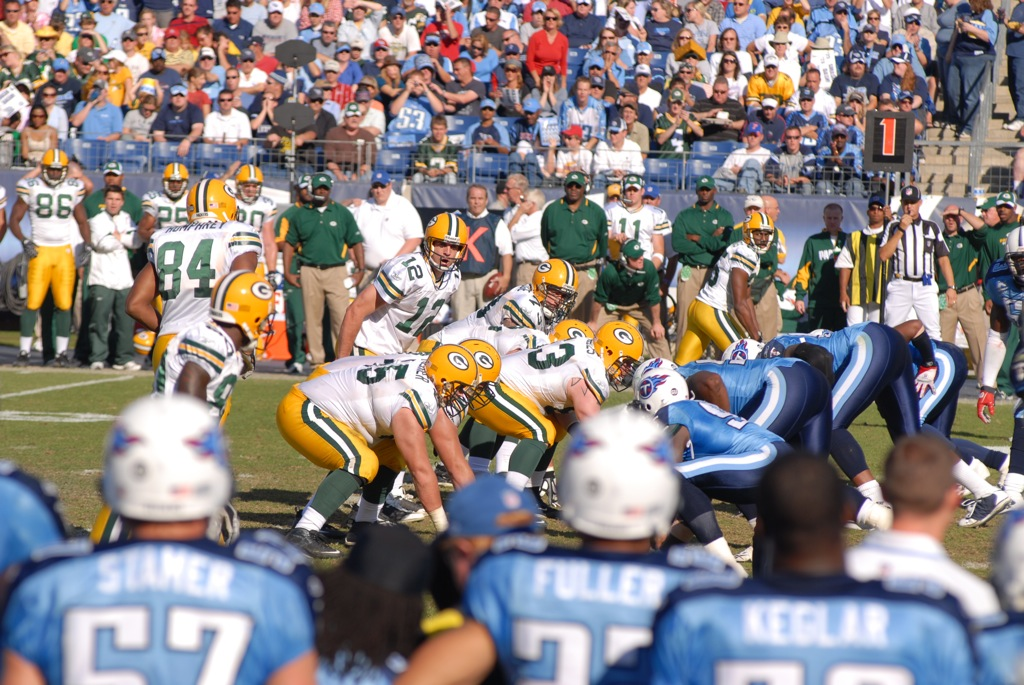 Aaron Rodgers and the 2008 Packers offense vs the Tennessee Titans at LP Field in Nashville Tennessee on November 2nd, 2008.